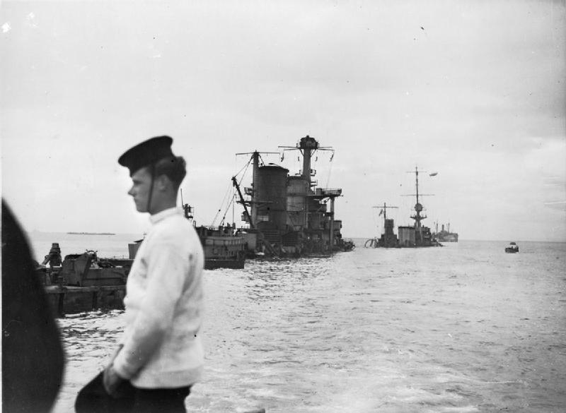 A Gooseberry, a line of block ships laid off the beaches to form a reef before the rest of the Mulberry was assembled. The Gooseberry includes the old HMS DURBAN and the Netherlands ship SUMATRA.